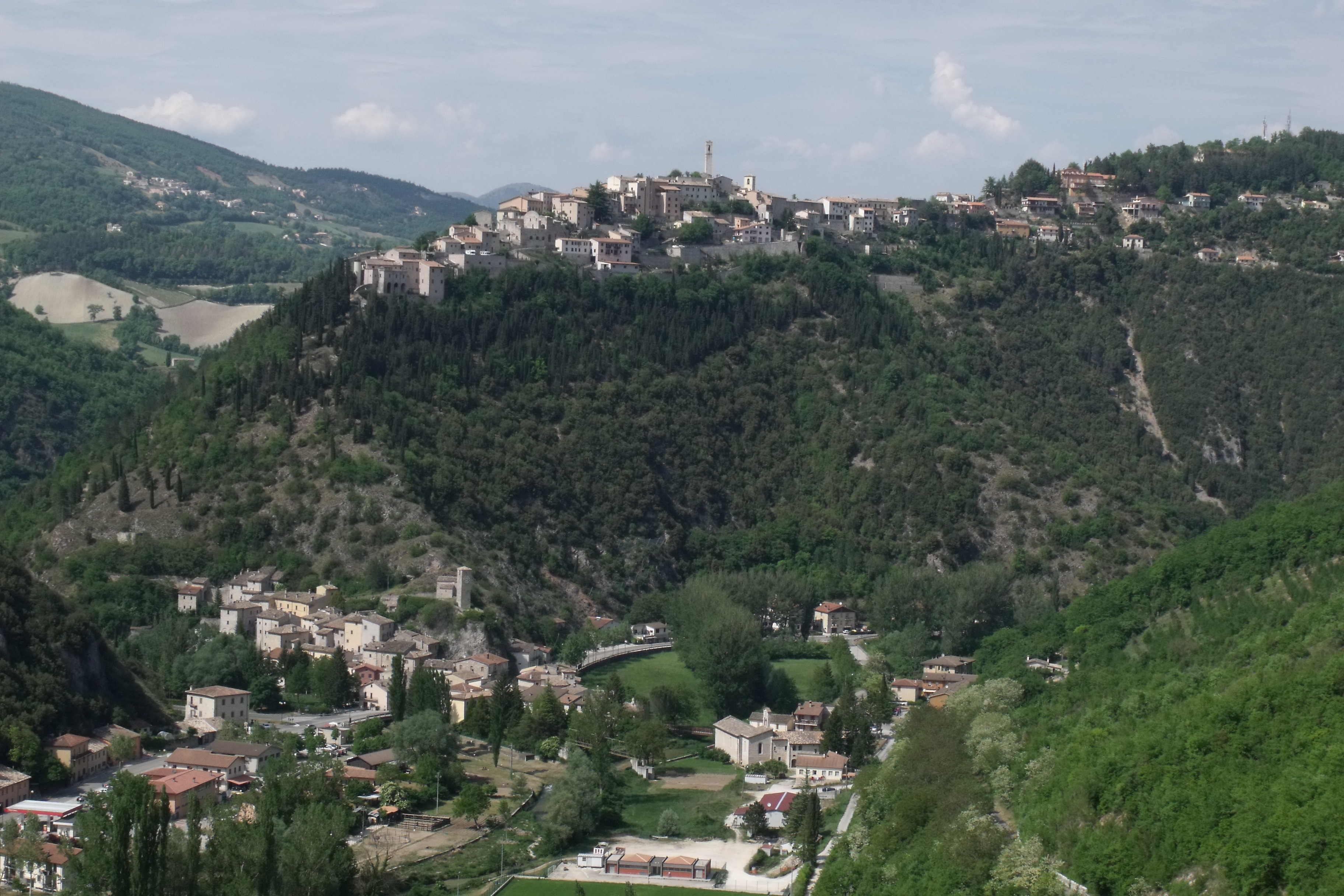 Panorama of Cerreto di Spoleto (upper part) and Borgo Cerreto (lower part), Valnerina, Province of Perugia, Umbria, Italy